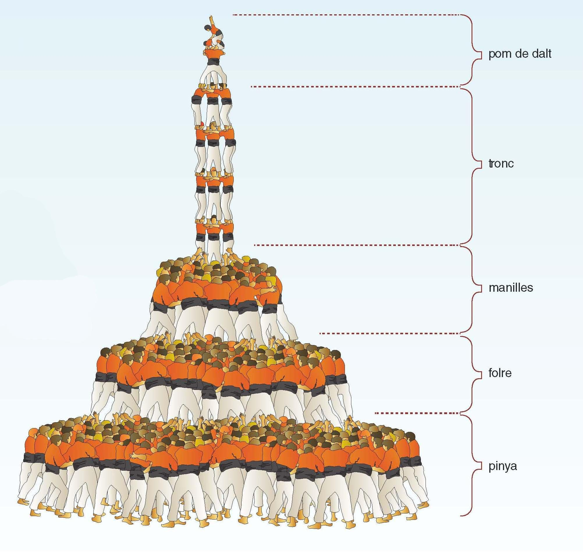 The structure of the human tower